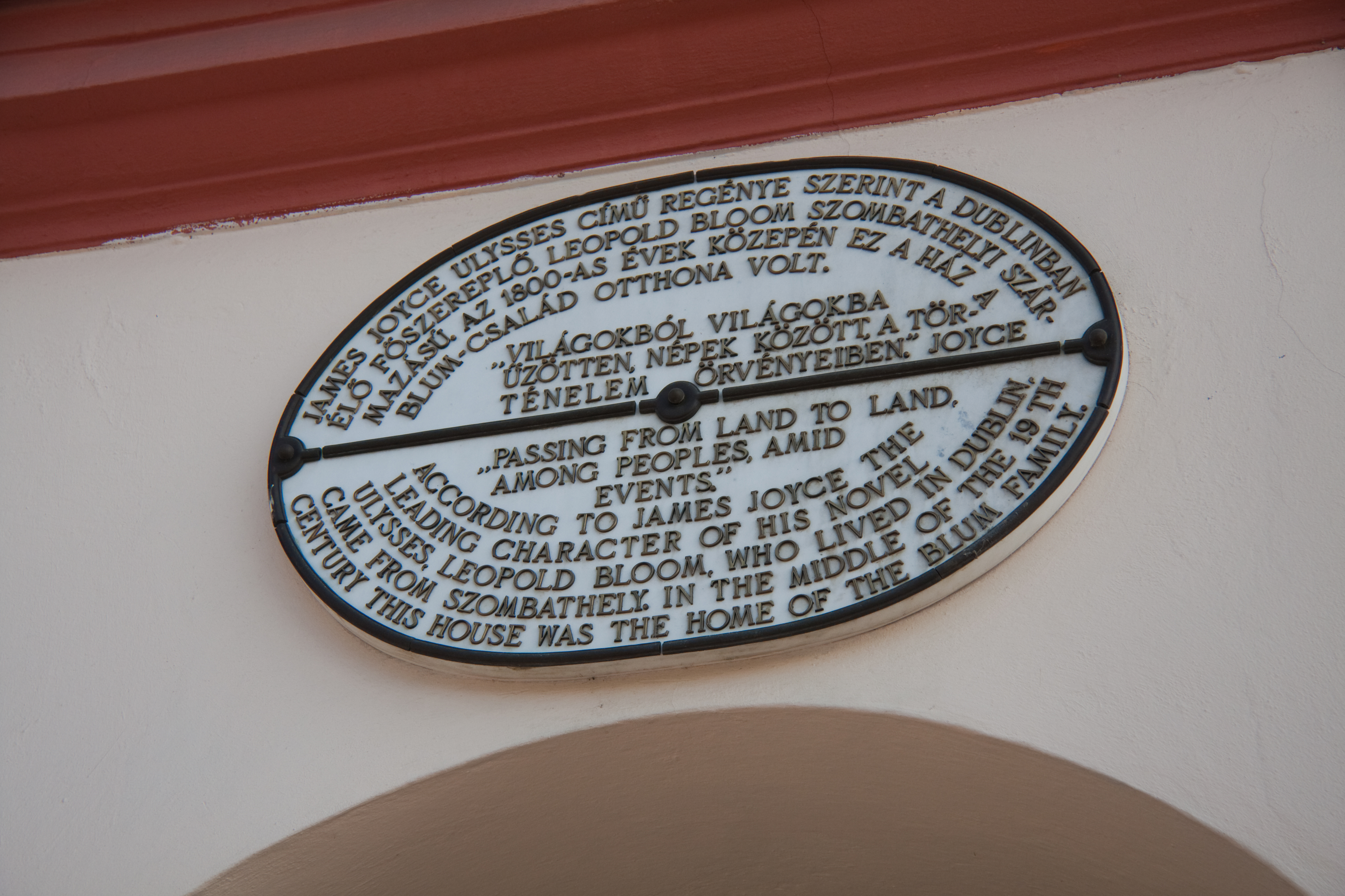 A plaque on the house which was the home of the Blum family in Szombathely, Hungary